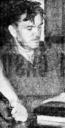 Vladimir Dedijer (4 February 1914 – 30 November 1990) was a Yugoslav partisan fighter, politician, human rights activist, and historian.